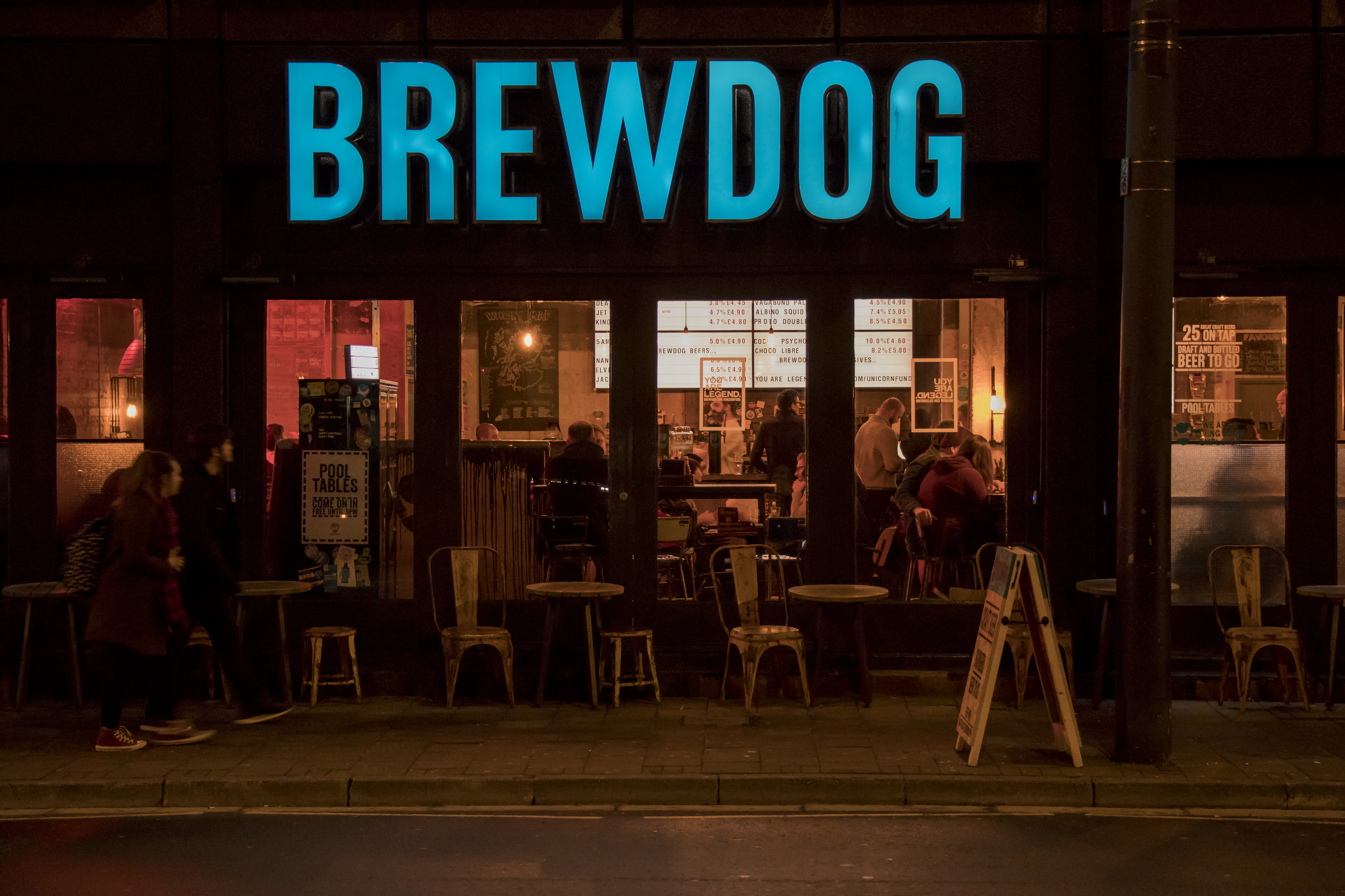 Brewdog bar, Cardiff at night